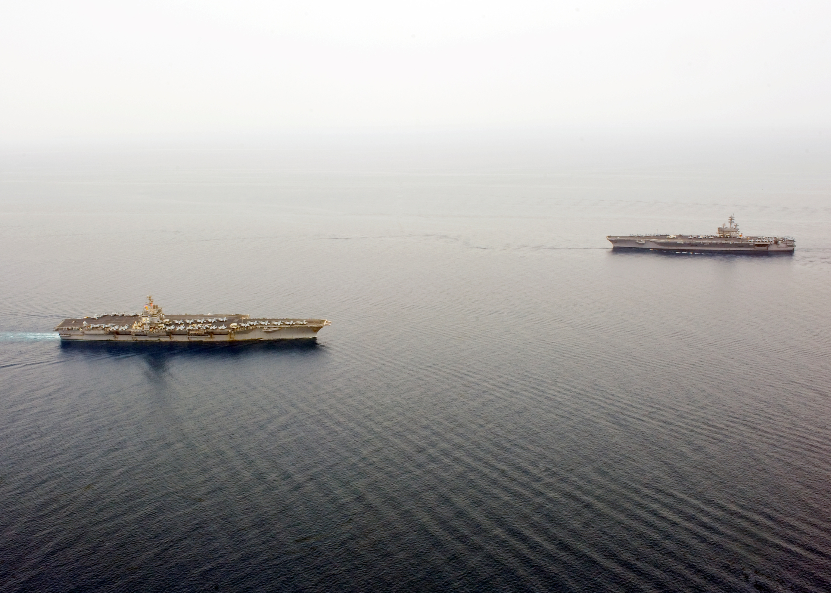 RED SEA (June 21, 2011) The Navy's oldest aircraft carrier, USS Enterprise (CVN 65), left, passes the Navy's newest aircraft carrier, USS George H.W. Bush (CVN 77), during a transit of the Strait of Bab el Mandeb. George H.W. Bush arrives in the U.S. 5th Fleet area of responsibility to take over operations for Enterprise. (U.S. Navy photo by Mass Communication Specialist 2nd Class Michael L. Croft Jr./Released)